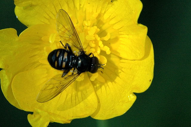 Picture taken in Commanster, Belgian High Ardennes . Species: Pipiza quadrimaculata